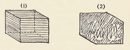 Intended for inclusion in Wikisource article for Flatland